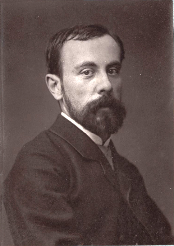 Photographic portrait of Albert-Emile Artigue.